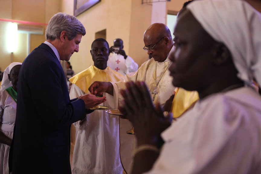 Senator John Kerry receives communion at a special referendum mass at the Kator Catholic Church on January 9, 2011. Credit: Jenn Warren